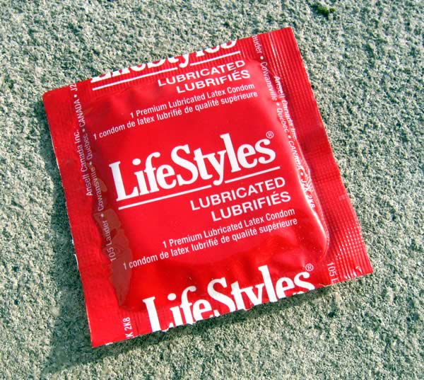 Front of package for LifeStyles condom